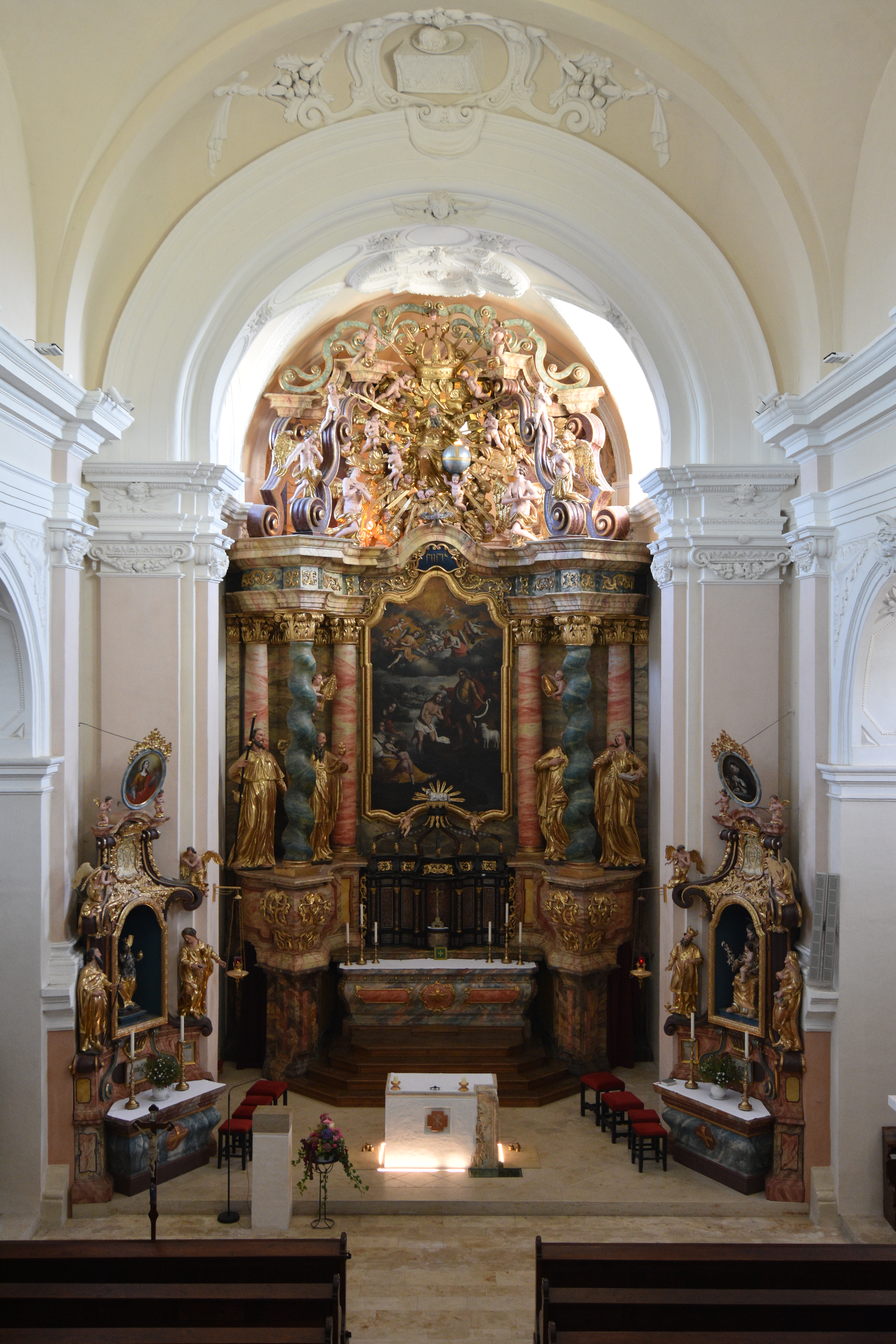 Church hl. Johannes der Täufer, Sankt Johann bei Herberstein